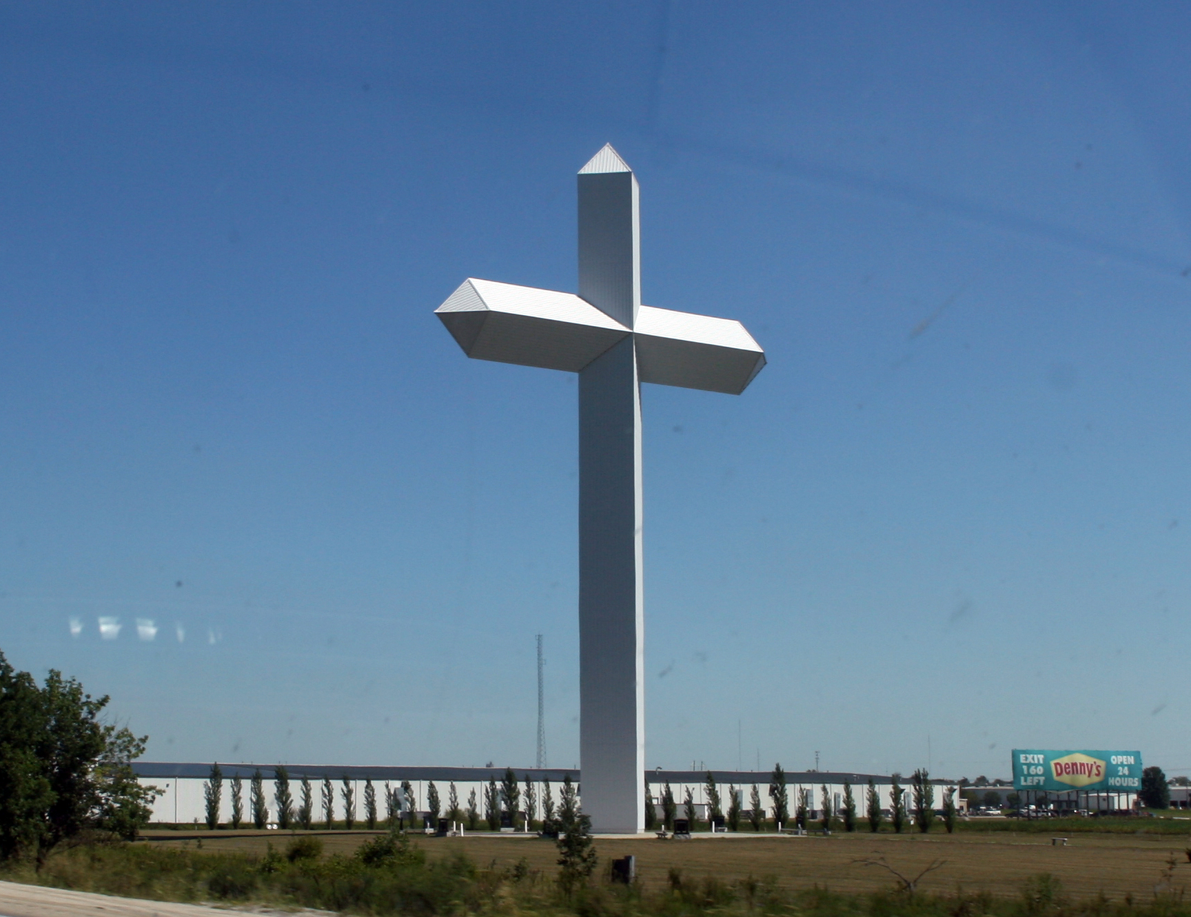 The Cross at the Crossroads, near Effingham, Illinois, U.S.